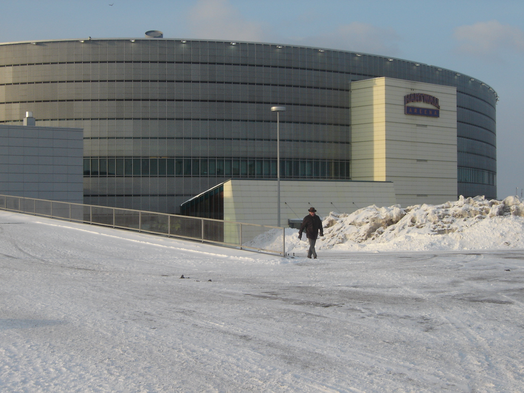 Our destination was the Hartwall Arena. We had tickets to see the home ice hockey side Jokerit - Jokers - take on another team in the end of season play-offs. Beforehand we had a meal in a restaurant overlooking the risk, where I had my first taste of reindeer.